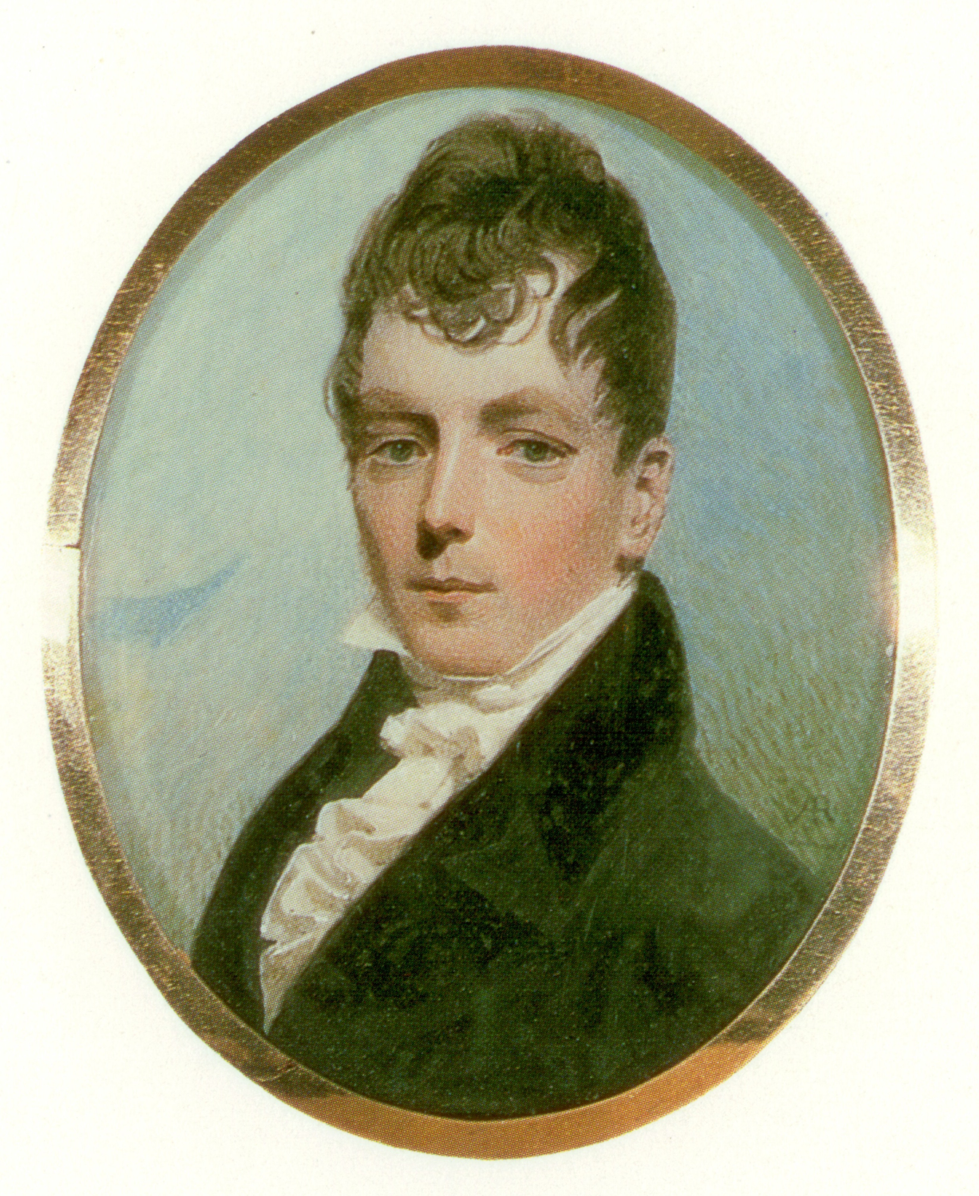 Ivan_Ilarionovich_Vorontsov-Dashkov Hermitage